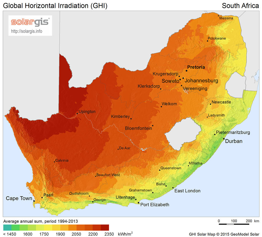 Solar Radiation Map: Global Horizontal Irradiation Map of South Africa, SolarGIS.